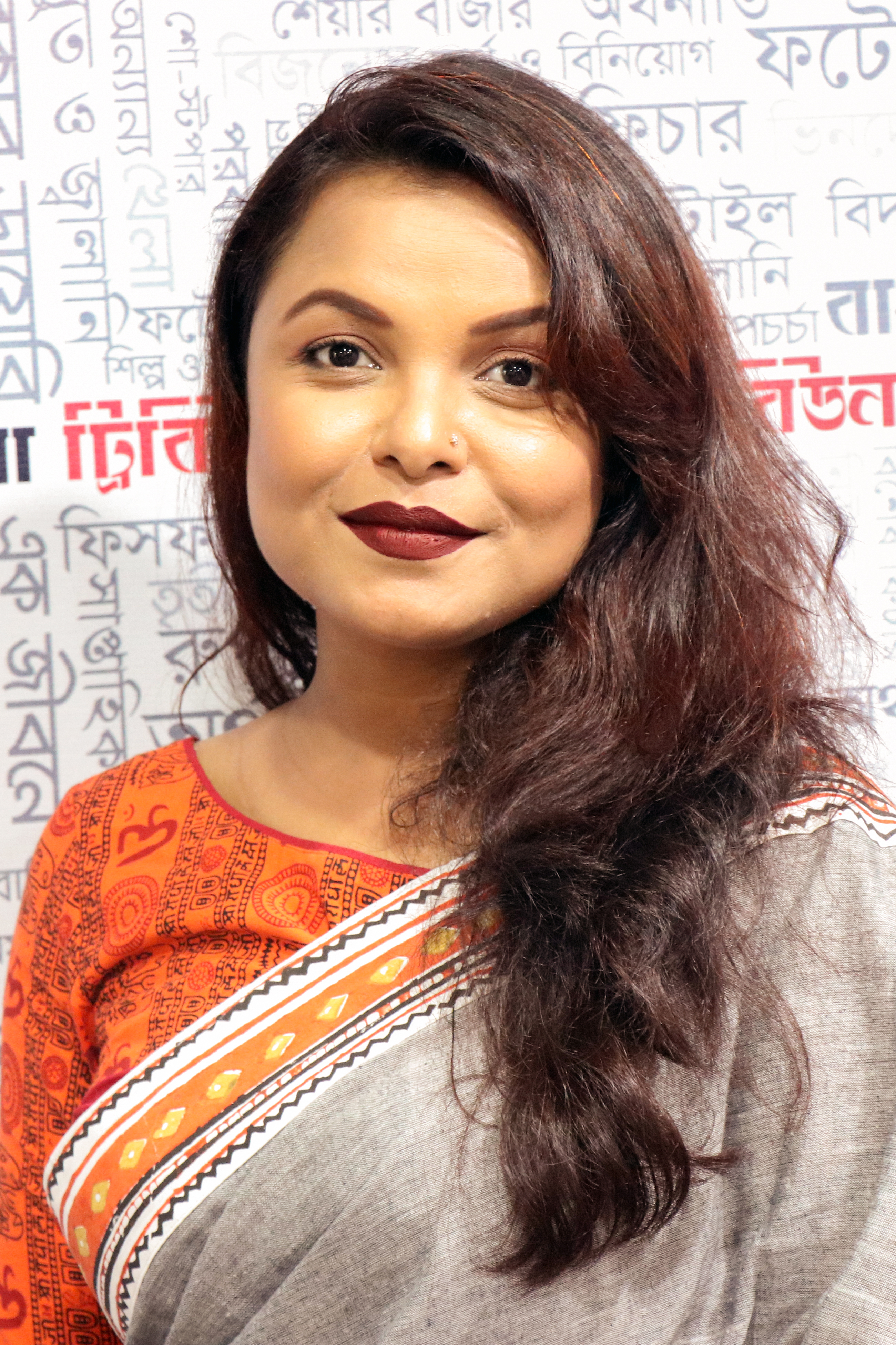 Meher Afroz Shaon, Bangladeshi actress, director and playback singer